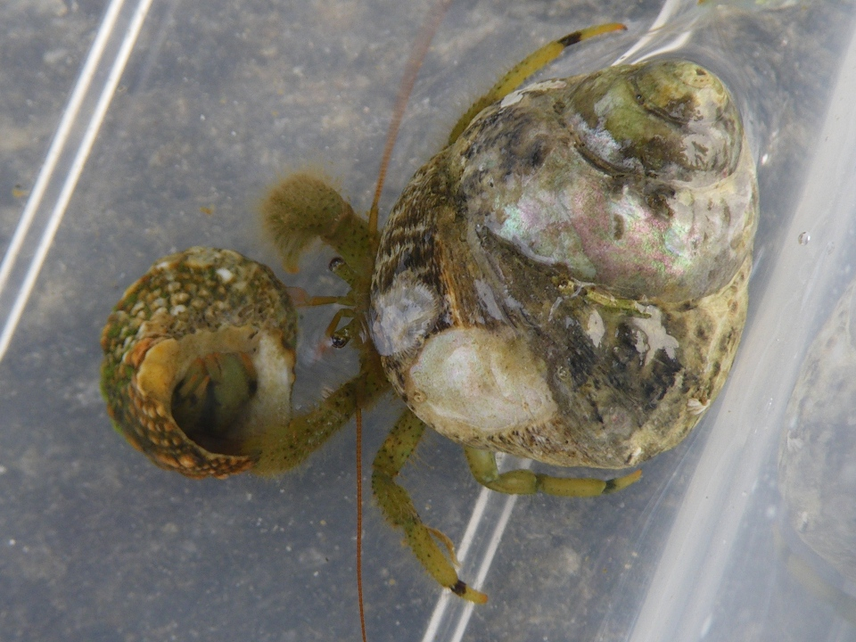 Pagurus nigrofascia Komai, 1996. at Nagasaki